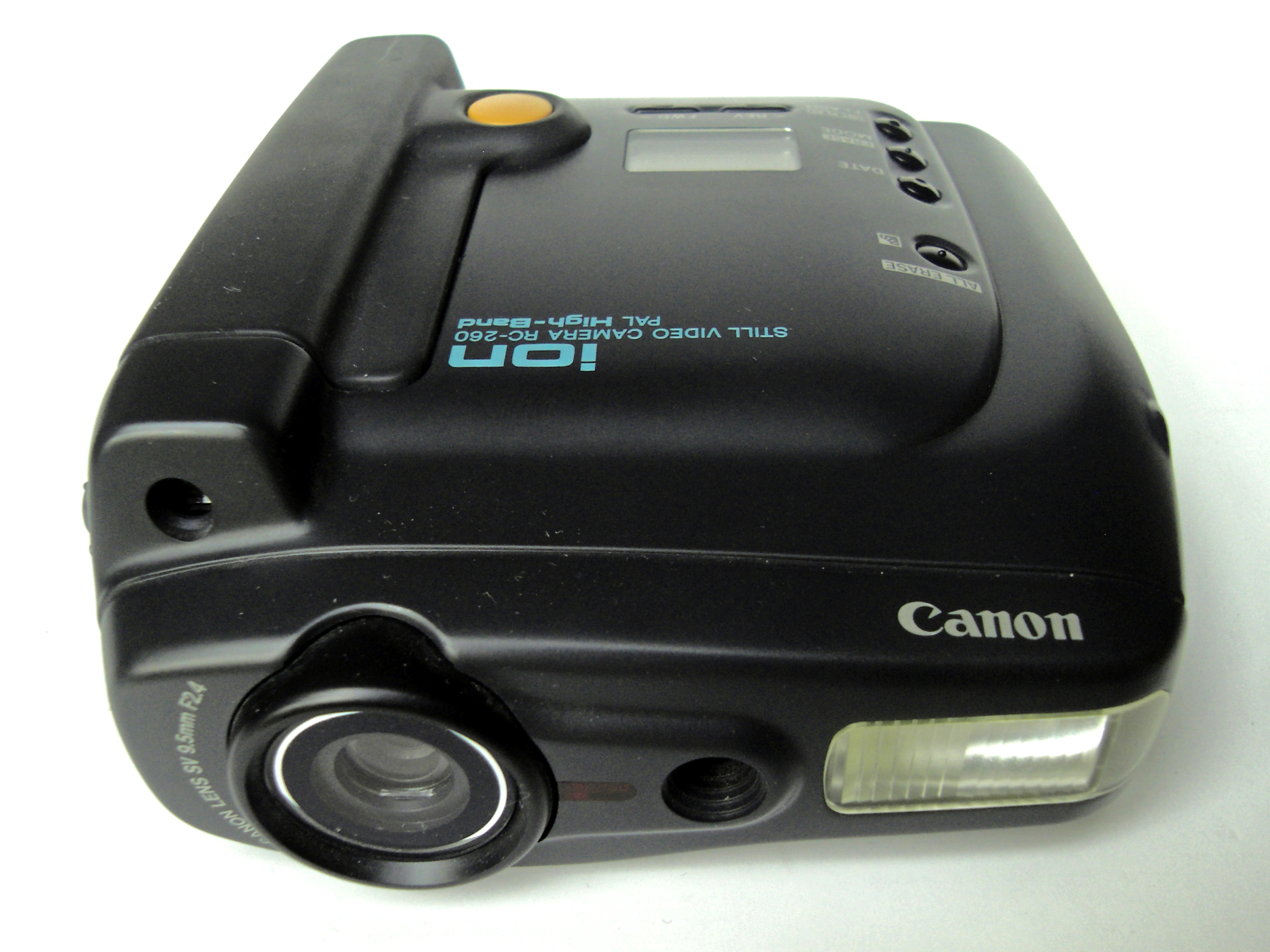 Still video camera Canon Ion RC-260